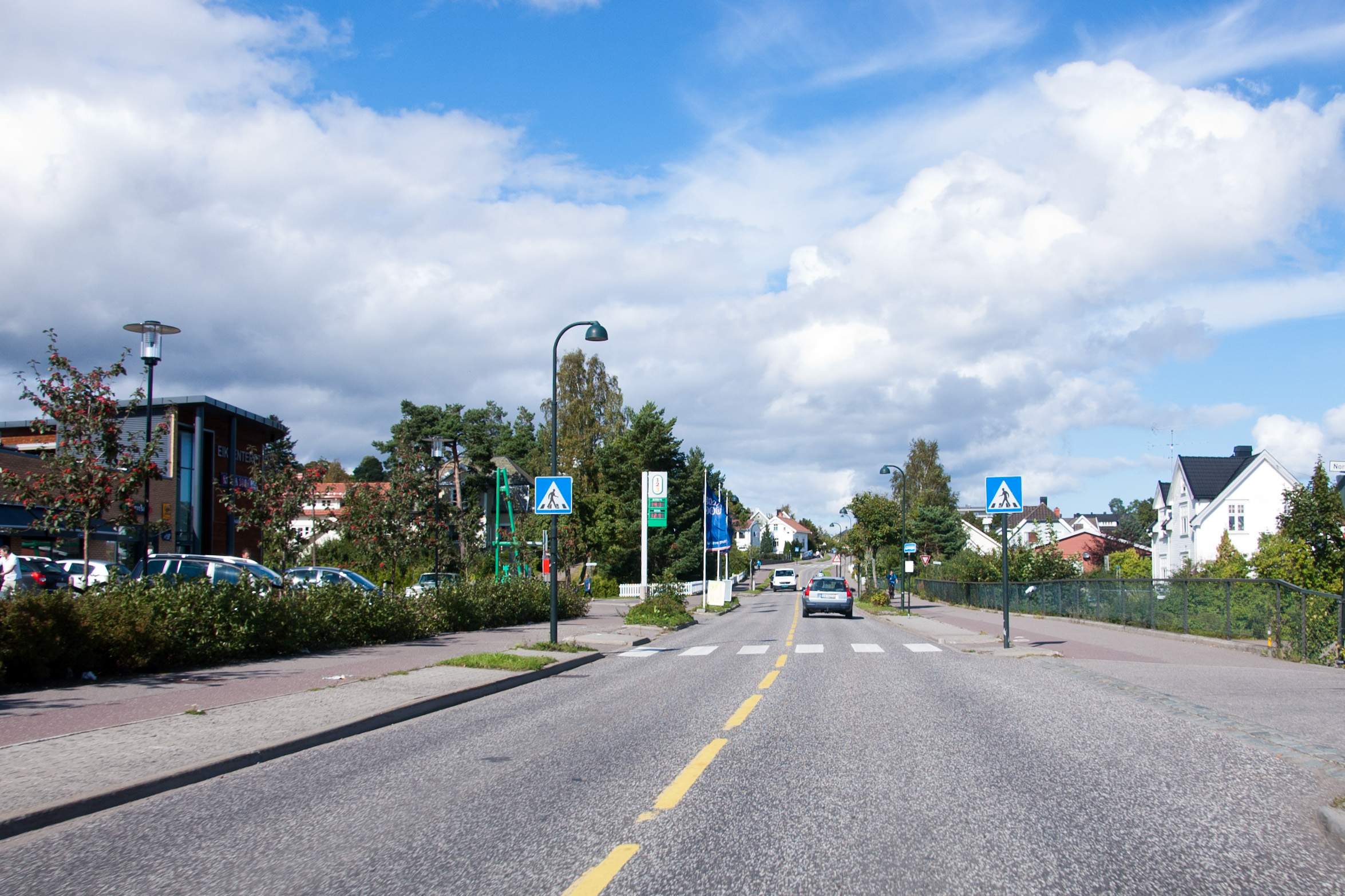 County road 465 "Eikveien" at Eik, Tønsberg, Vestfold county, Norway.